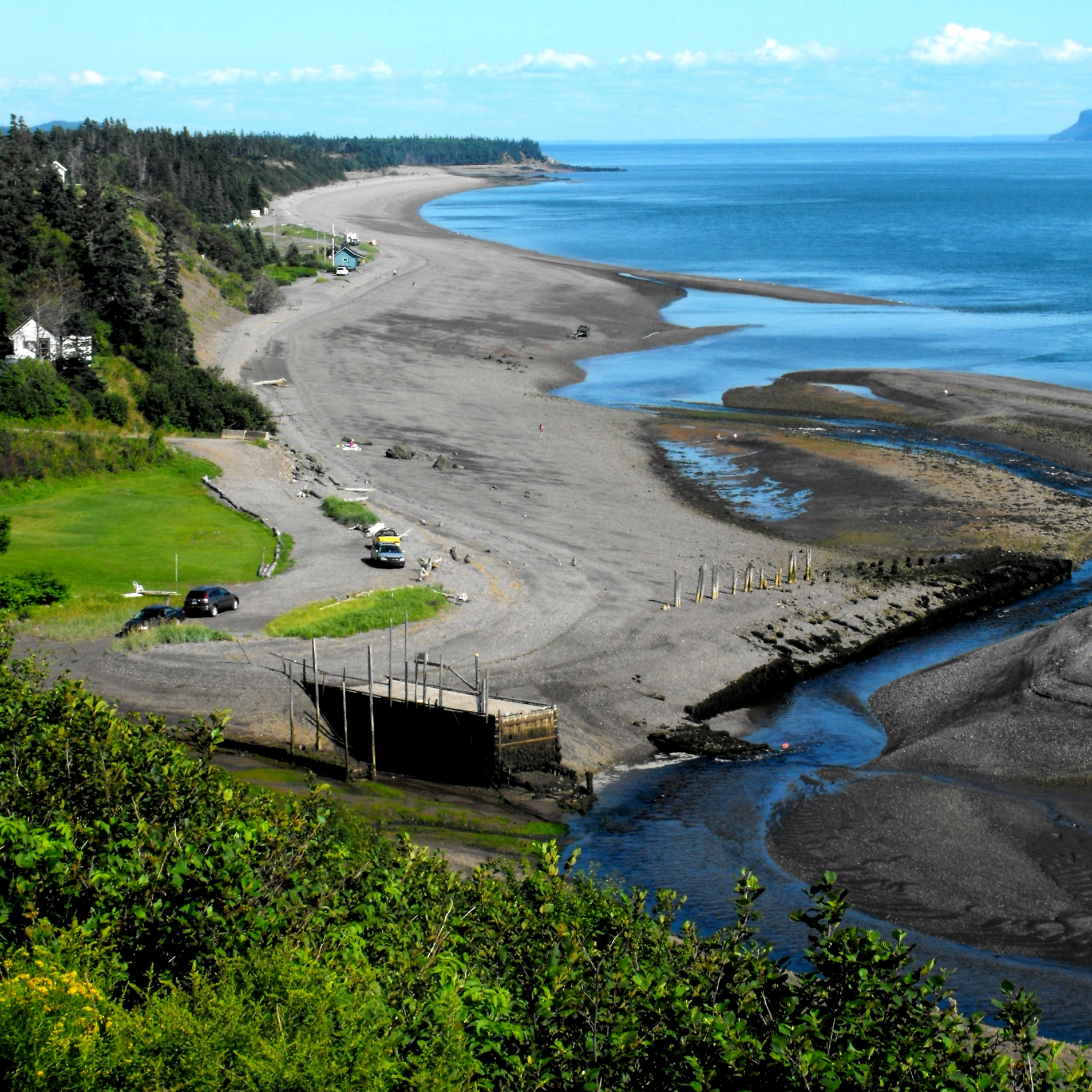 View of the beach at Port Greville, Cumberland, Nova Scotia